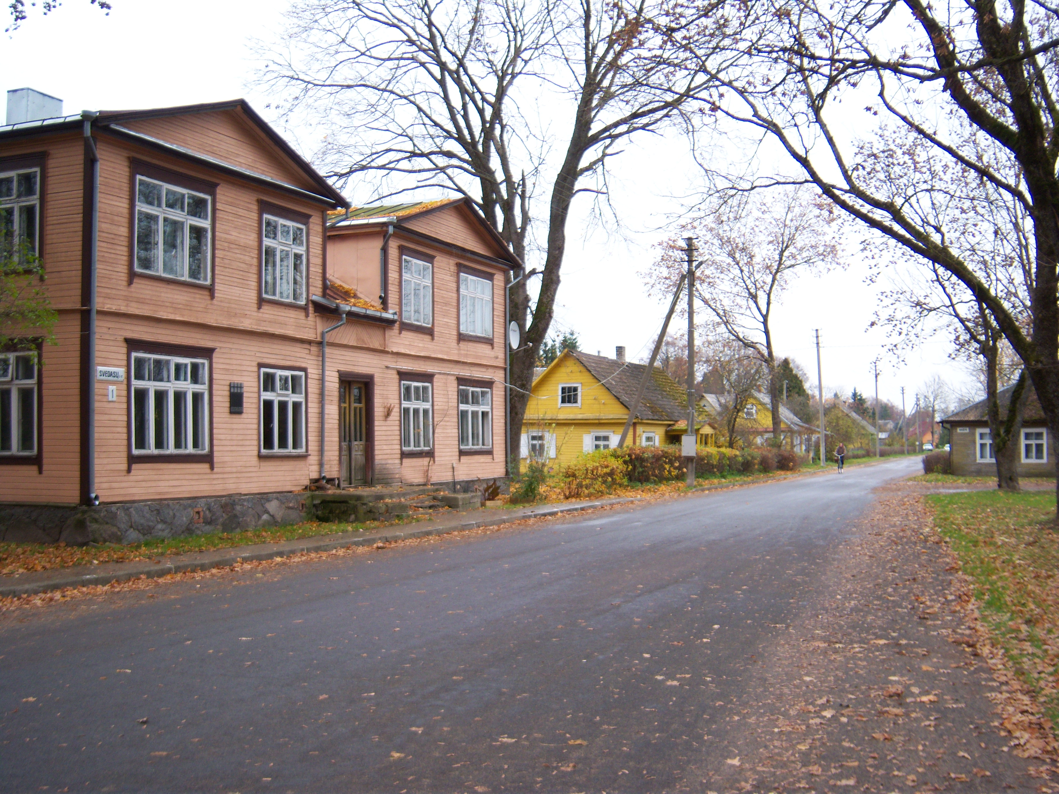 Šimonys, Kupiškis District, Lithuania